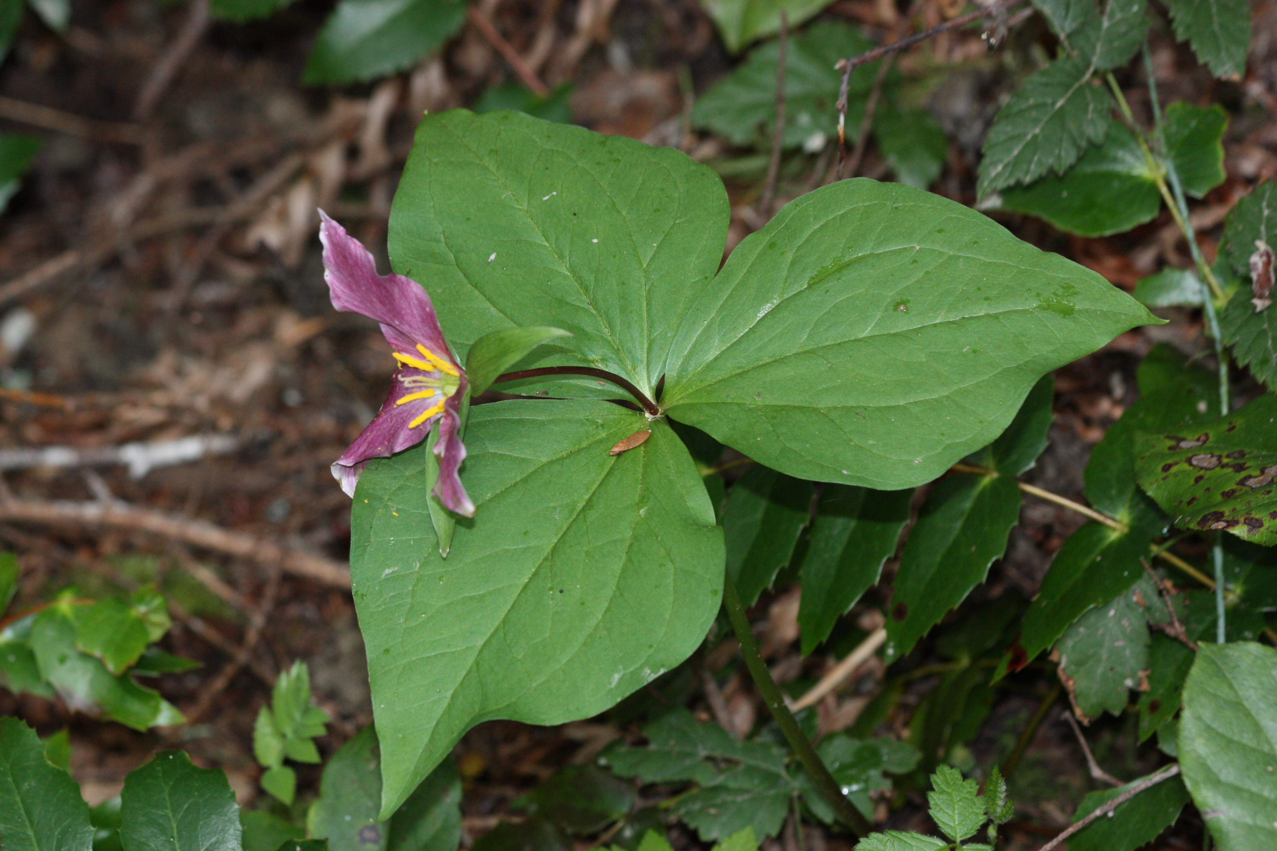 Pacific Trillium, Wakerobin